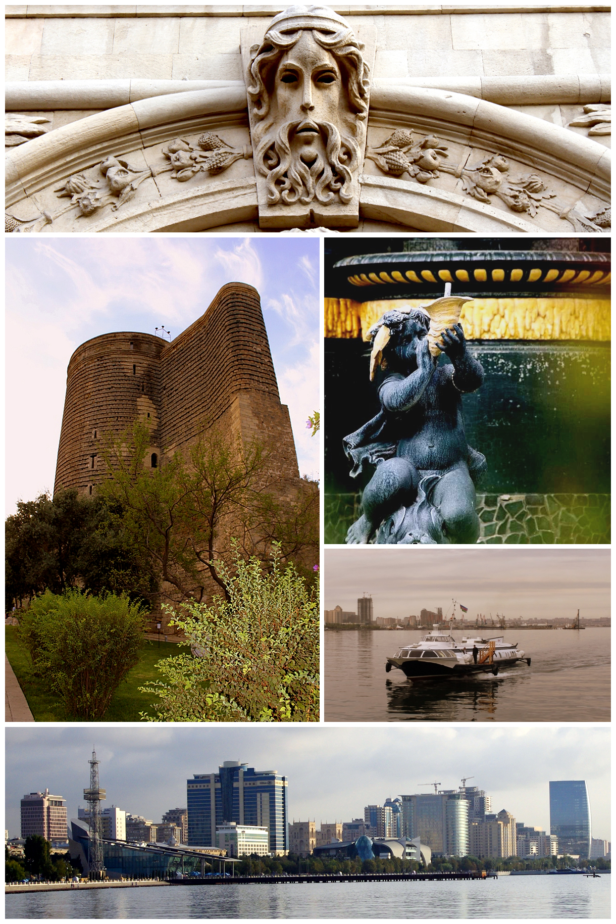 Montage of pictures of Baku used for the specific article. Composition of these pictures: File:İsmailiyye palace main facade detail 5.JPG File:Qiz qalasi, Baku, 2010.jpg File:Fəvvarə - detal Bakı.jpg File:Baku 9821.JPG File:Вид на бульвар.JPG